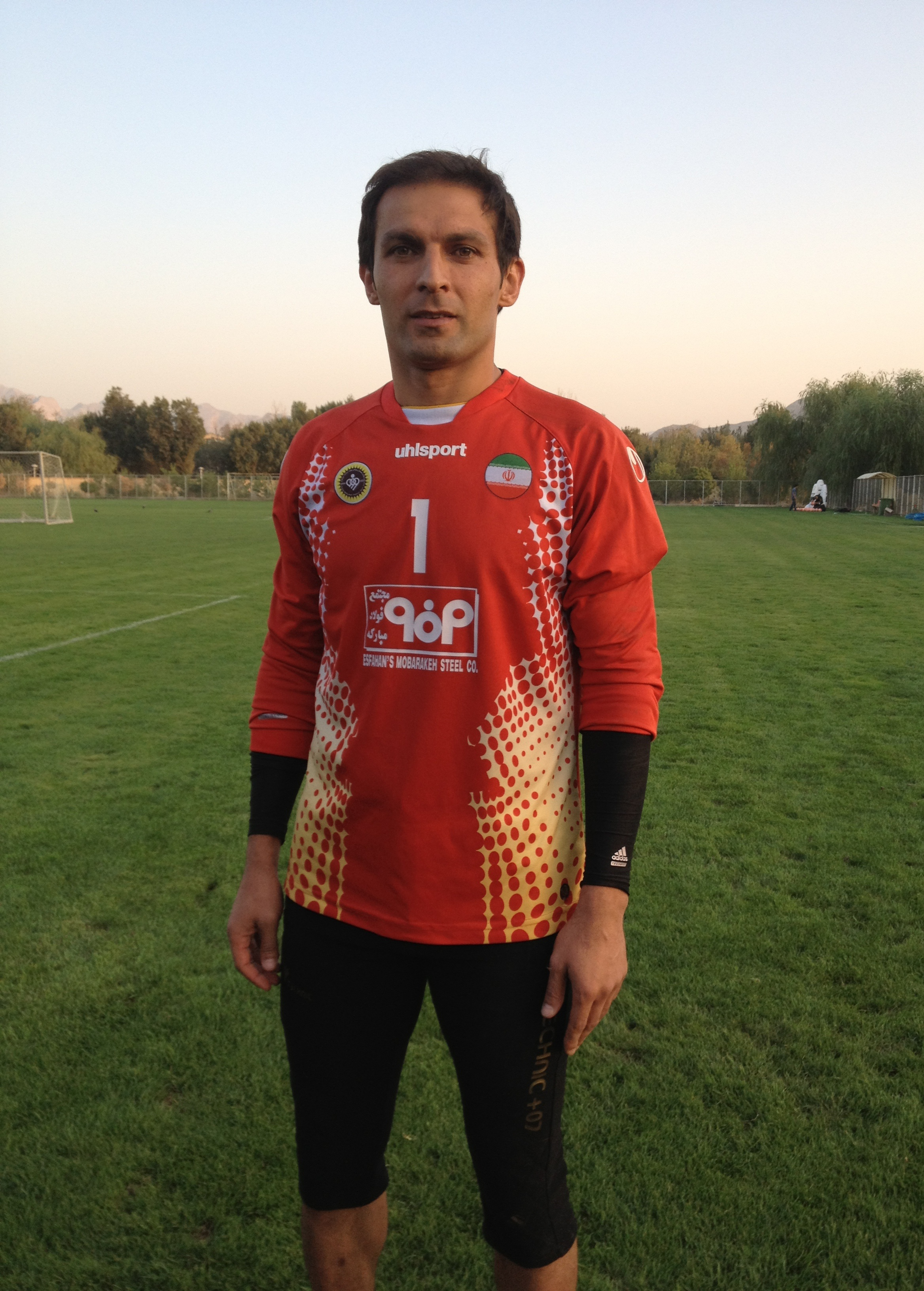 Rahman Ahmadi , Isfahan , Jarvakan ground , 2013